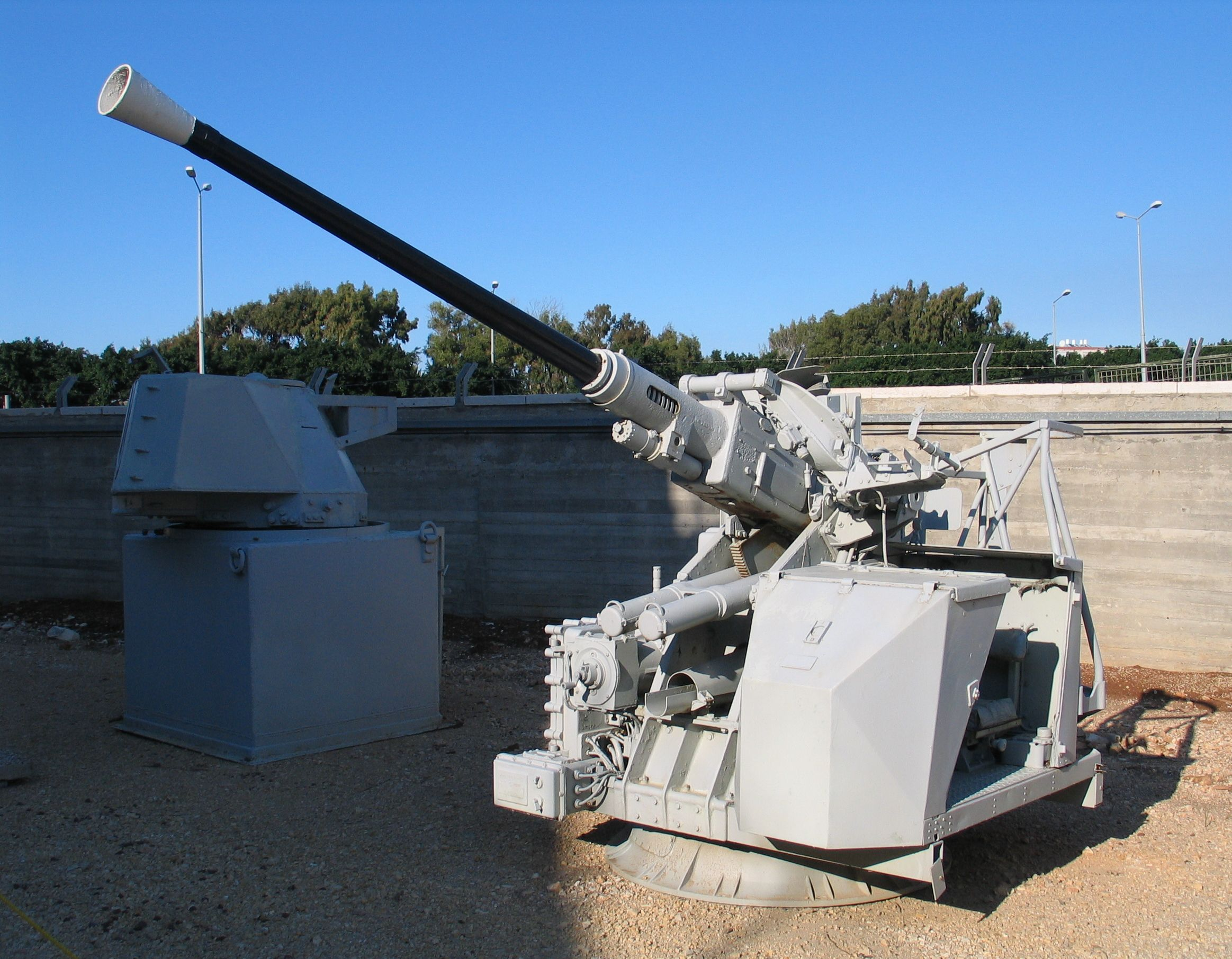 Bofors 40 mm AA gun in the Clandestine Immigration and Naval Museum, Haifa, Israel.